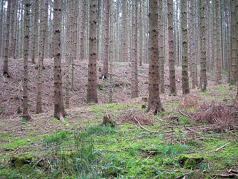 Early middle age ringwork "Kirchholz" near Haberskirch and Dasing (Bavaria, Germany). The southern wall of the central earthworks.